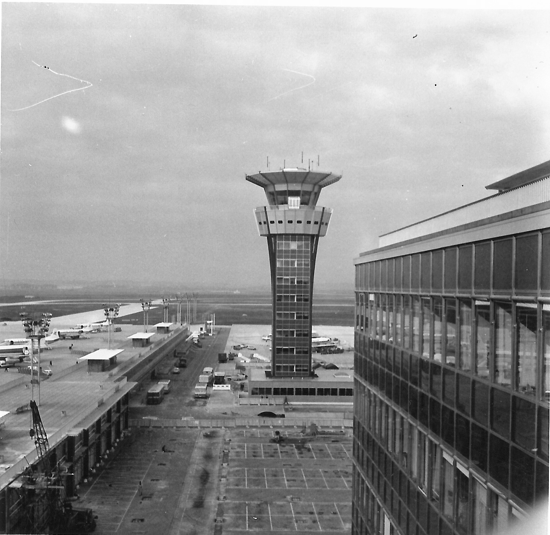 Radar tower of Orly-Sud (Paris, France) airport in april 1966.